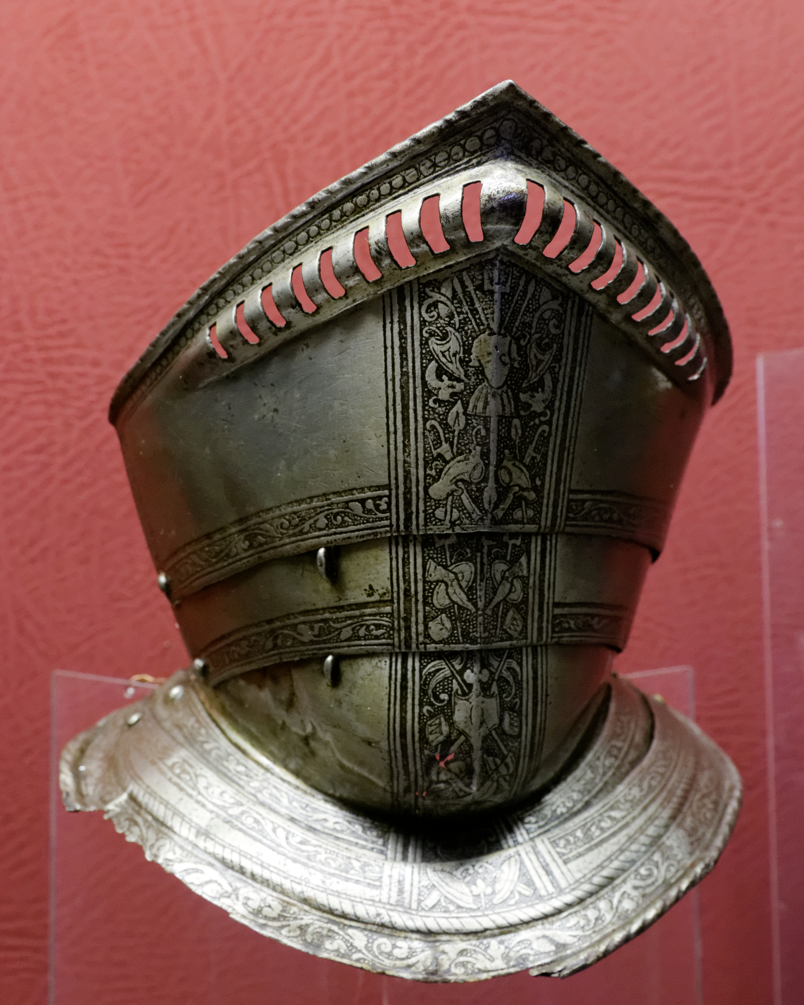 Falling buffe, Palace Armoury in Valletta, Malta.